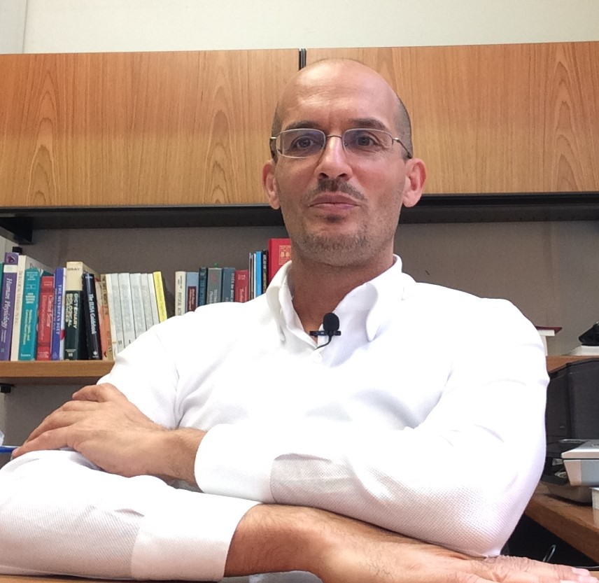 Photo of Luigi Fontana